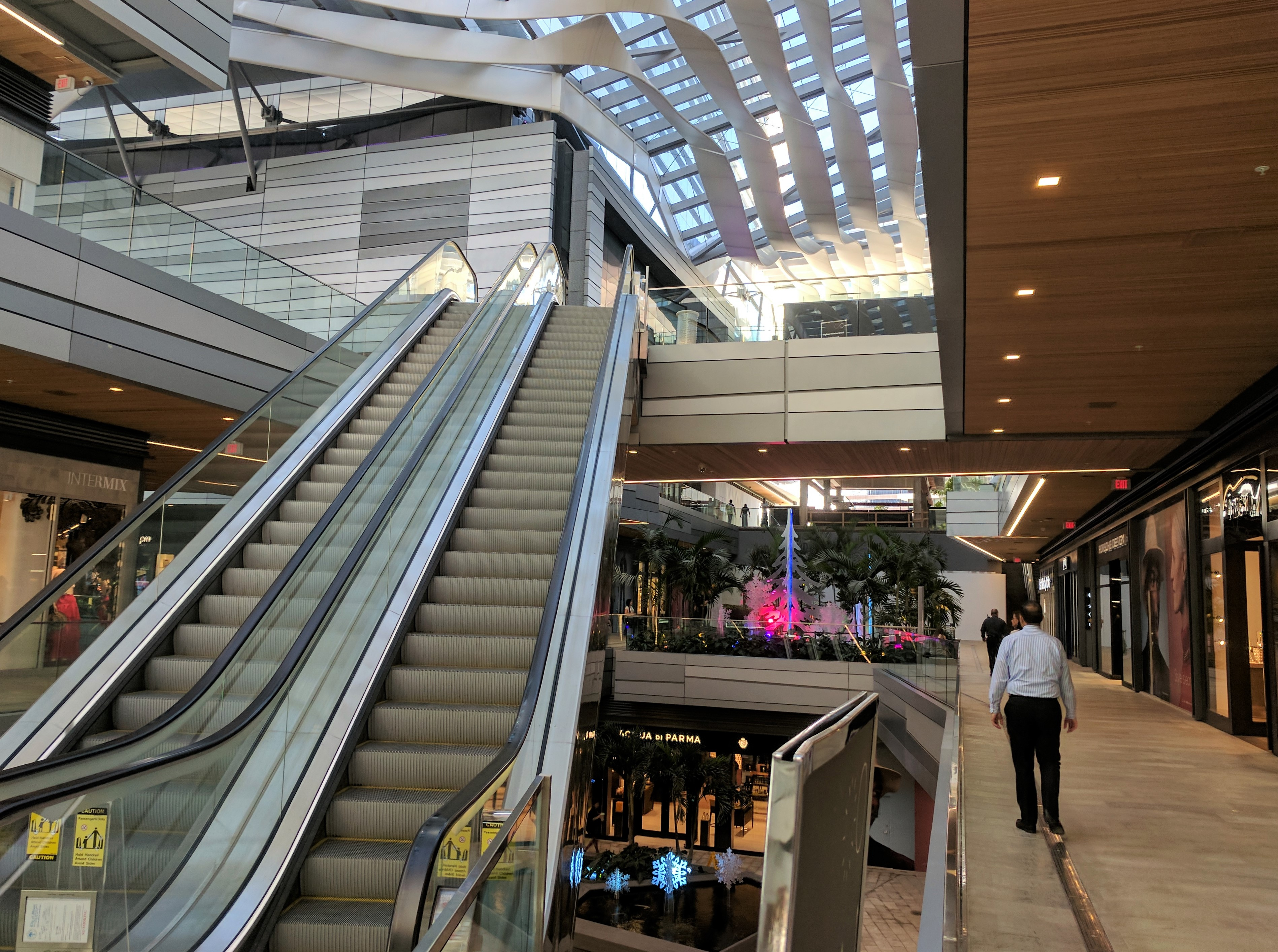 A picture of the semi-enclosed retail portion of the Brickell City Centre development in Miami, FL, USA.